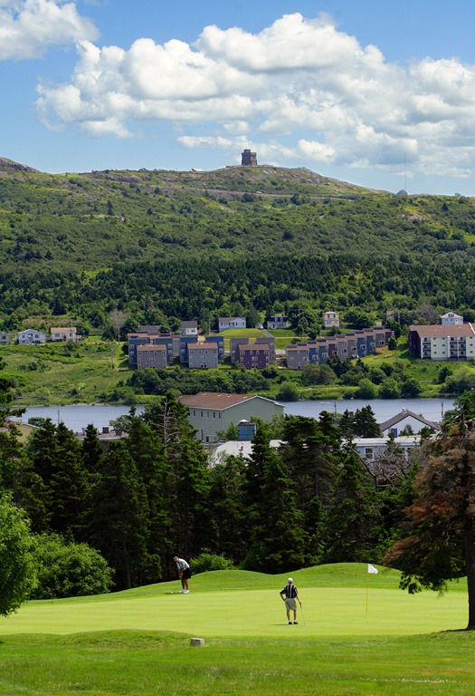 Bally Haly Golf Course, St. John's, Newfoundland